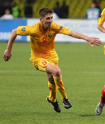 Veliče Šumulikoski with Macedonia national football team.